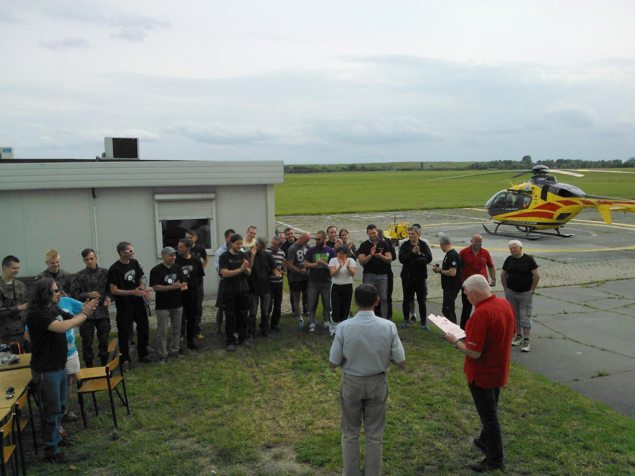 Eurocopter EC135P2 Air Ambulance from Poland